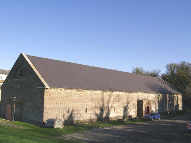 The Royal Gunpowder Magazine, Purfleet This magazine, now a Scheduled Ancient Monument was built in the 1760s, when it was moved from Greenwich to current location at Purfleet